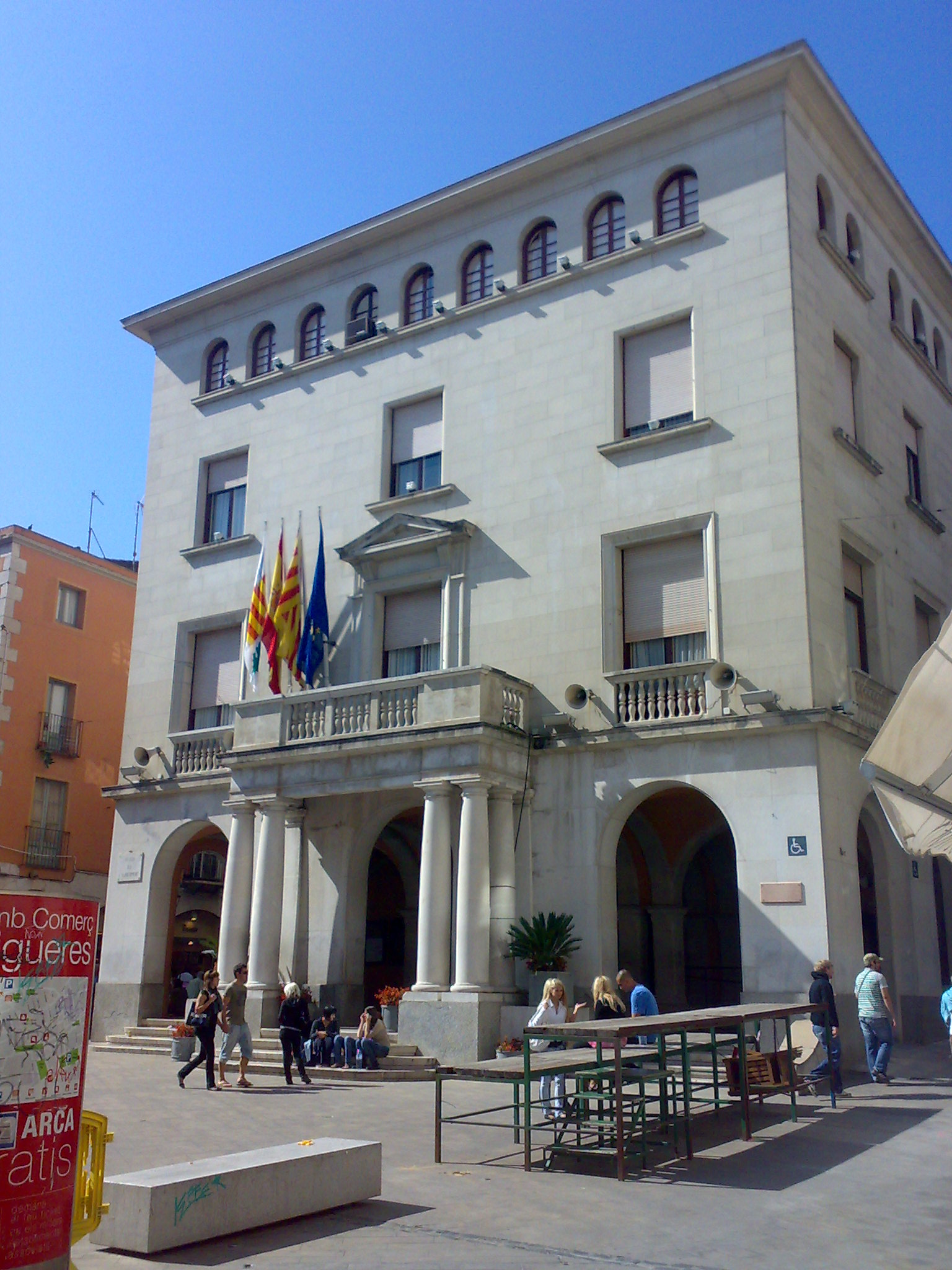 Townhall of Figueres, in the province of Girona (Catalonia, Spain).